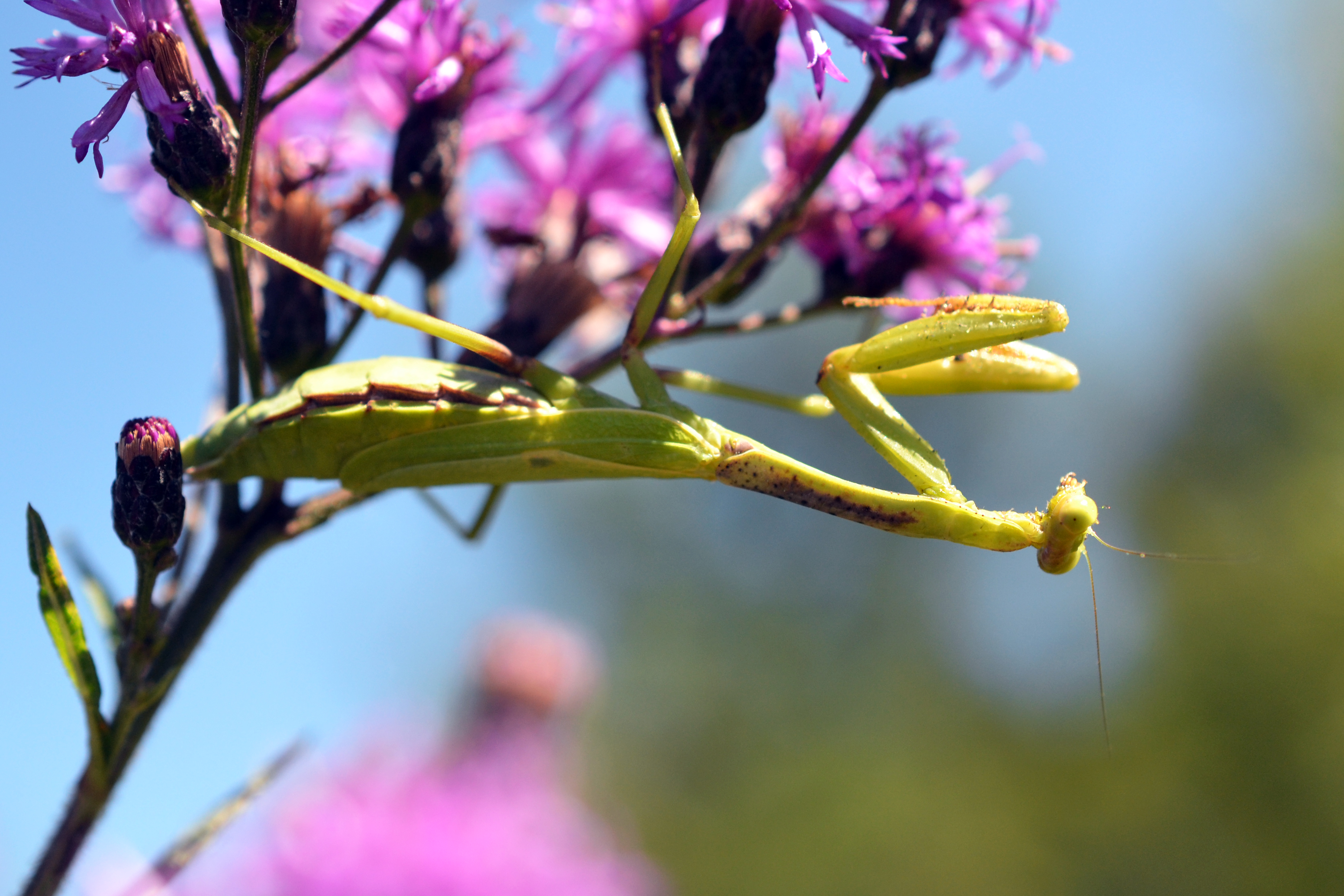 Ellis Lake Wetlands, Fairfield, Ohio